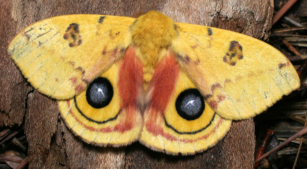 Io moths, Automeris io, female (upper), male (lower). Captured and posed. Location: Durham County, North Carolina, United States